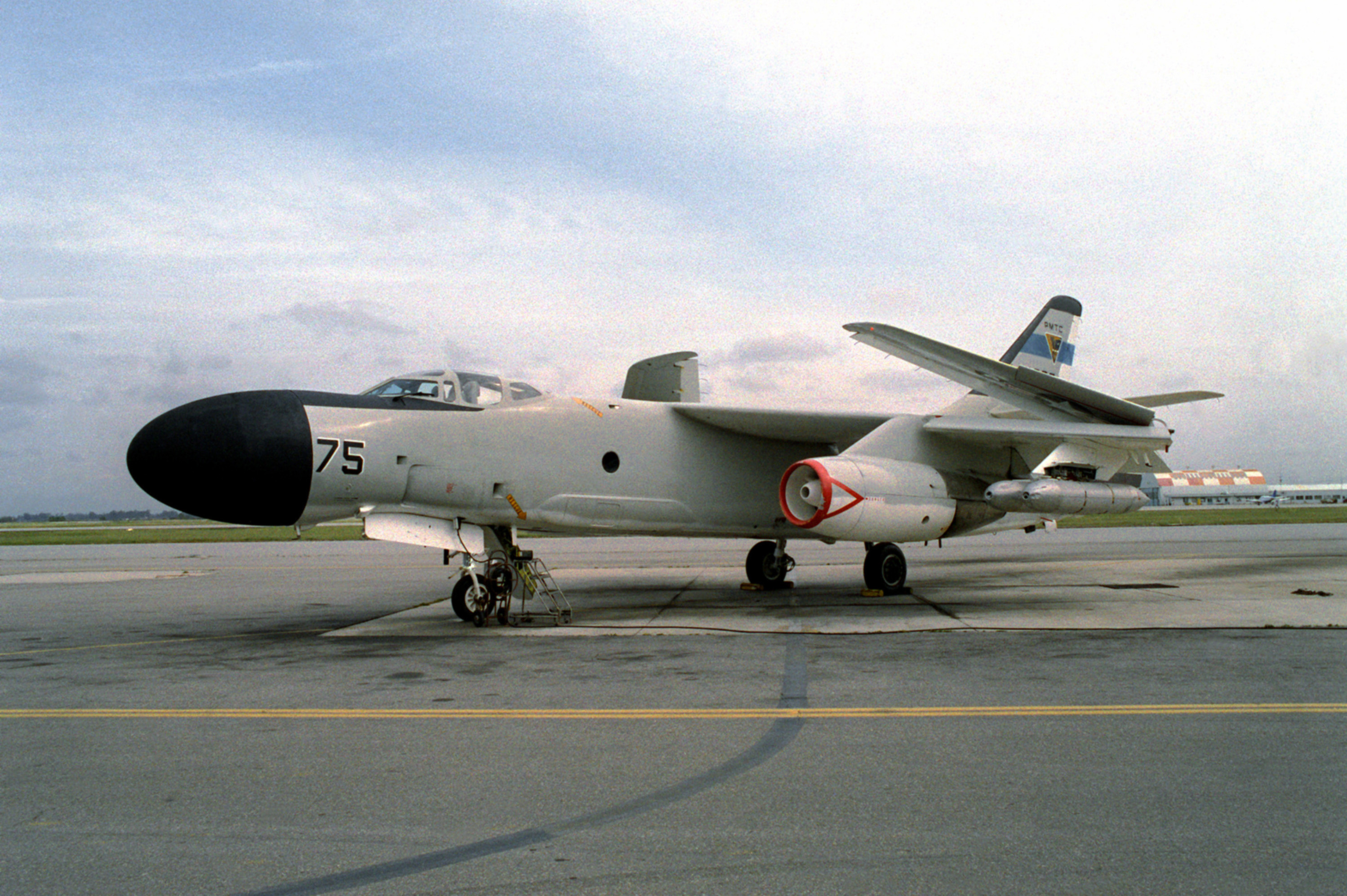 A Douglas NRA-3B Skywarrior aircraft (BuNo 144834) equipped with electronic warfare (jammer) pods, with its wing folded up at the Pacific Missile Test Center, Point Mugu (California, USA), on 5 Apr 1982.